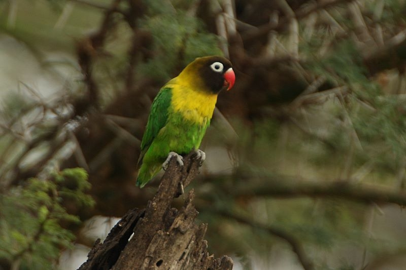 A Yellow-collared Lovebird in Serengeti, Tanzania.